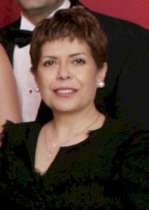 Columba Bush at a Bush family dinner